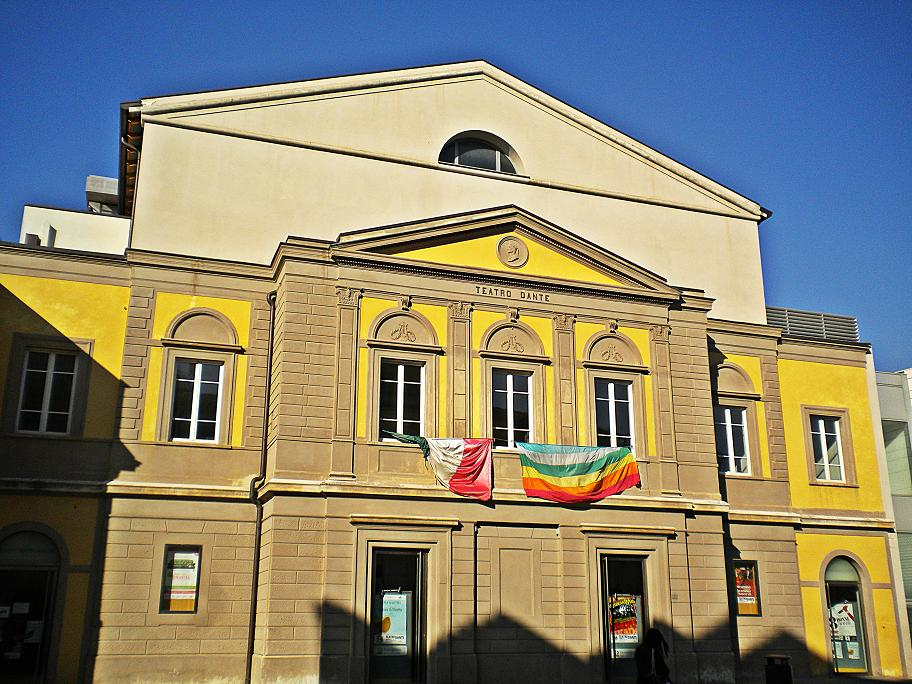 Teater Dante